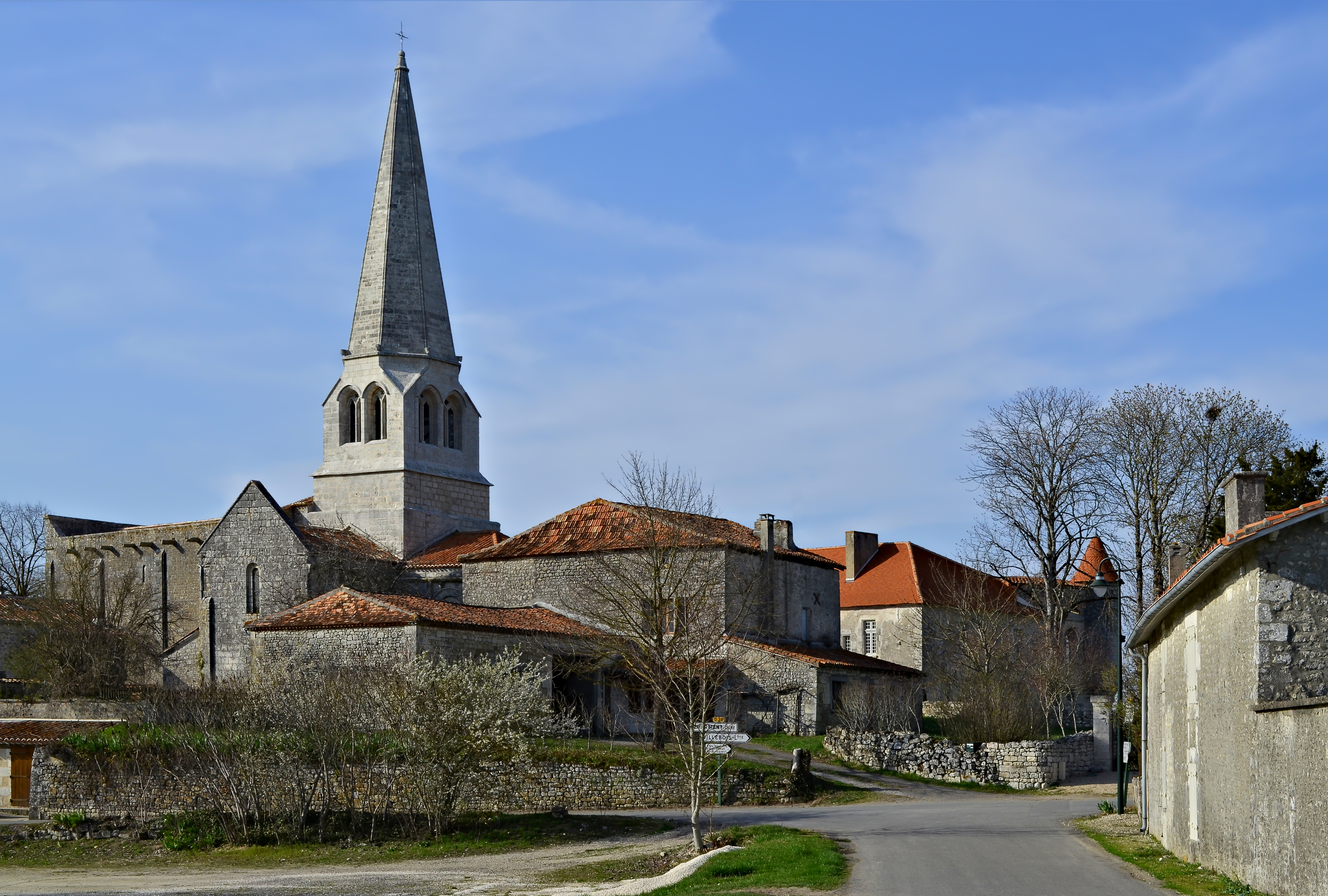 Clock-tower and roofs : entrance of the village by road D 123, Charmant, Charente, France.